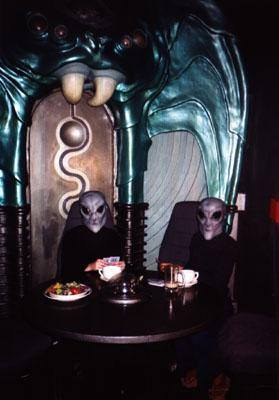 E. Pluribus Unum (Out of Many, One) Sculpture by Cary Lewis Long Nova Express Cafe